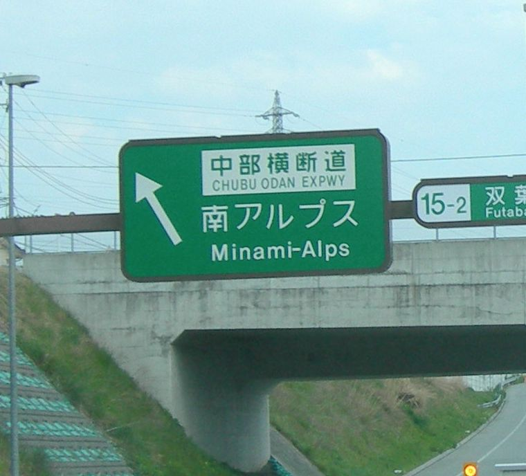 Futaba Junction on the Chuo Expressway inbound line (for Tokyo)